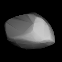 3D convex shape model of 1147 Stavropolis, computed using light curve inversion techniques. J. Hanuš, J. Ďurech, M. Brož, B. D. Warner (June 2011). "A study of asteroid pole-latitude distribution based on an extended set of shape models derived by the lightcurve inversion method". Astronomy and Astrophysics 530: A134. ISSN 0004-6361. arXiv